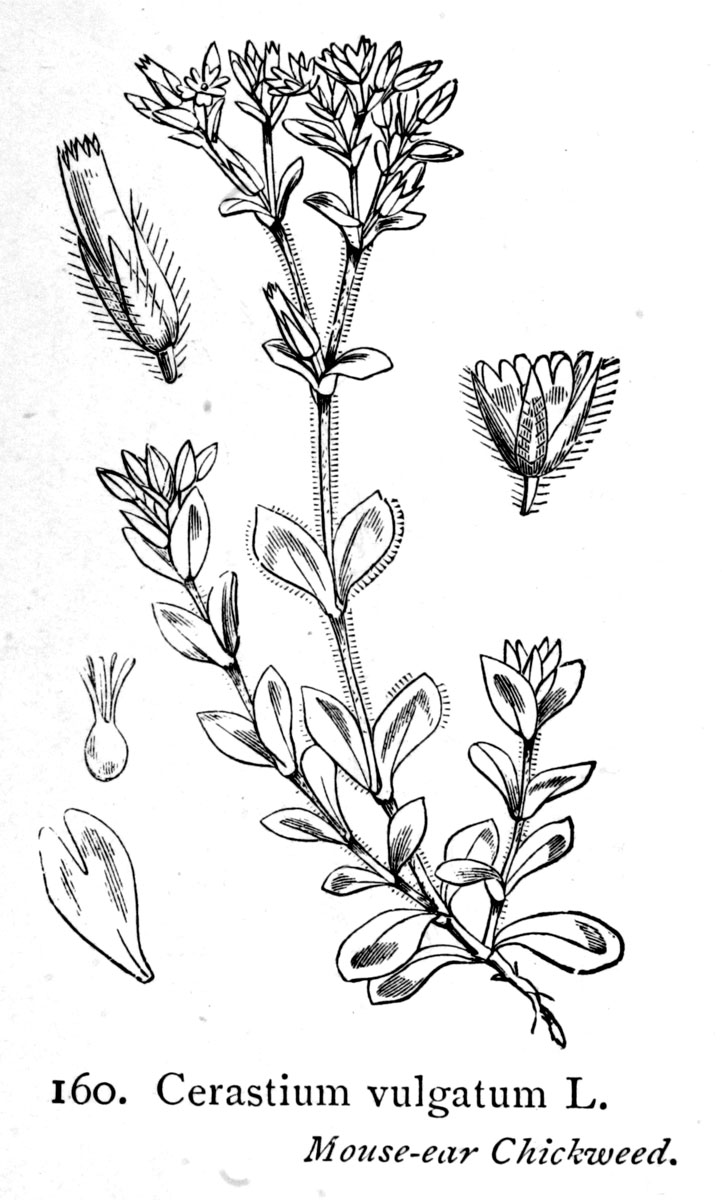 Illustration of Cerastium fontanum